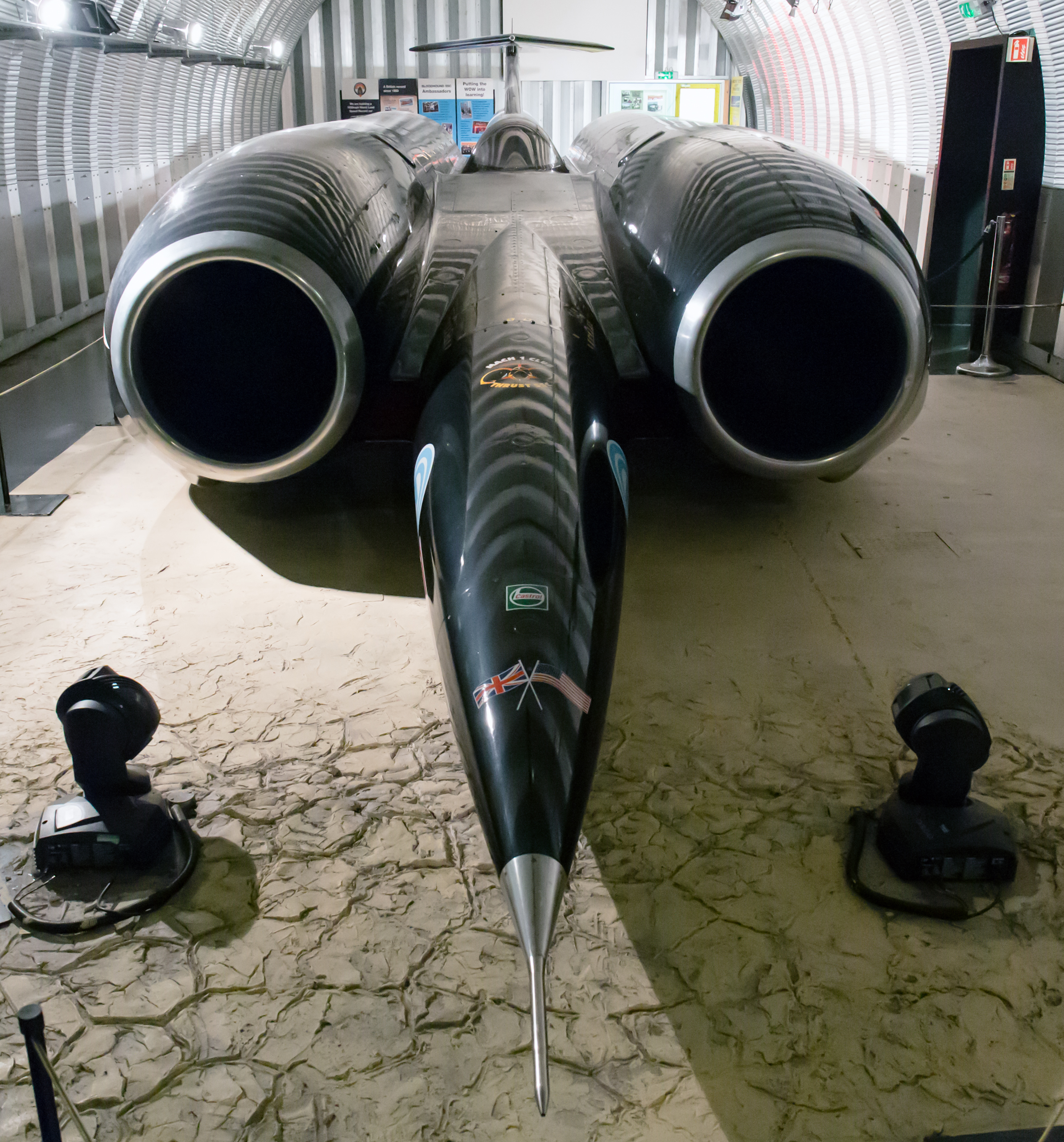 ThrustSSC